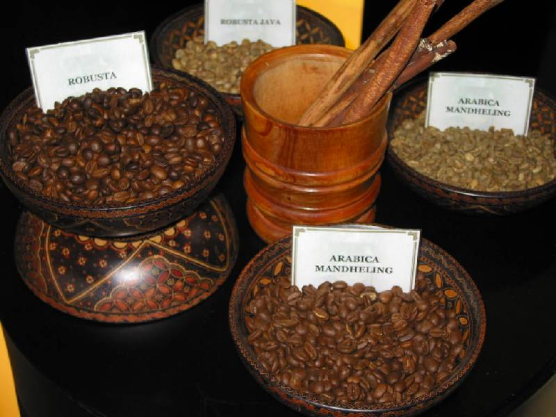 Kopi Indonesia (Coffee), Shangri-La Hotel